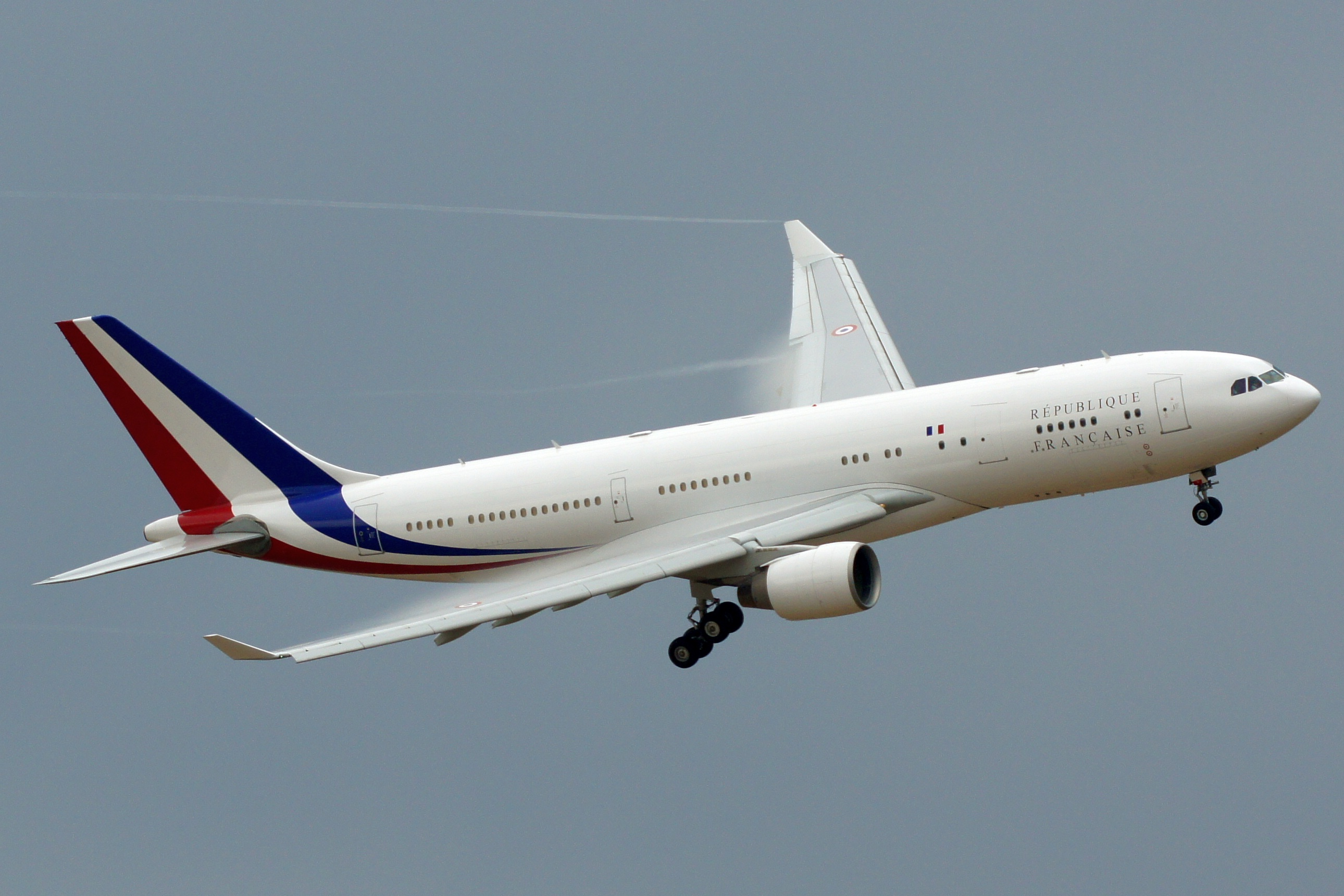 French Republic official airplane, Airbus A330, training flight around BA 105 (airbase n°105).